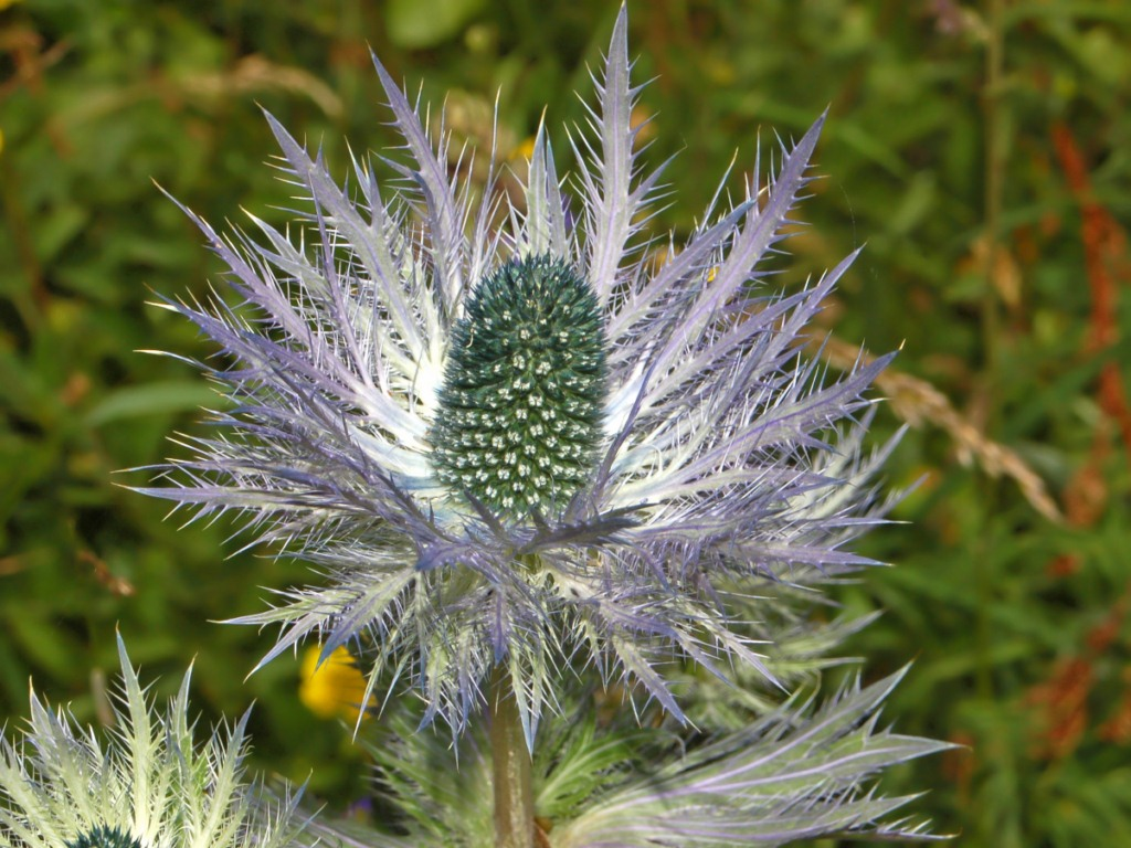 Eryngium alpinum - Col du Lautaret, France